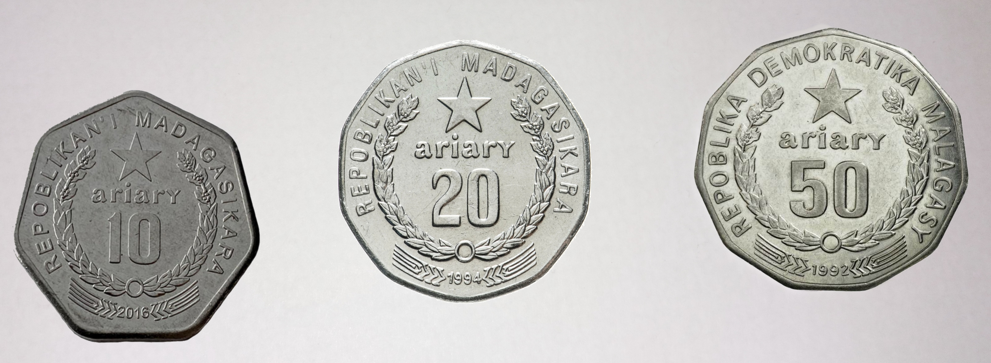 Madagascar Ariari - coins